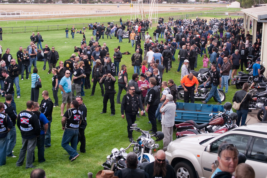 Gawler, South Australia. Gypsy Jokers Poker Run, Protesting the Right to Associate that has been taken away by the state govt. The laws do not only infringe on the rights of these groups, but should raise concern when a man is given the power to enfore his likes or dislikes. Bikies, right or wrong have a right to associate. There are other laws that deal with consorting, associating with a know criminal, etc. Mr. Rann, the state premier, appear to have personal reasons for his attack on Outlaw Bikies. Maybe he should not hide behind some false front that he can stop drugs and crime, even his own police force has its crime rate. He has brought out some of the most draconian laws. One cannot smoke in their vehicle if there are children in, may seem ok but wait, he also has tried to push legislation to make it illegal to smoke in your own home. This state has seen some of the sickest events in Australia's history, the last involving polies, police, magistrates, educators, known as the Family. They grabbed teen boys from the street and held them captive while perfoming all sorts of sick perverted acts on them while it was all being video taped and then disposed of the bodies. One lad had his rectum split in two by a bottle. Why hasn't Rann taken action against these groups. They are still alive today, and the case was dropped. As the various club leaders said, they are not going to force bikies out, they will always be here. I support the bikies 100%, especially after the treatment I received from the cops for taking photo's as I was coming close to the meeting place in my car.